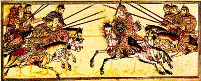 Mongol_cavalry.